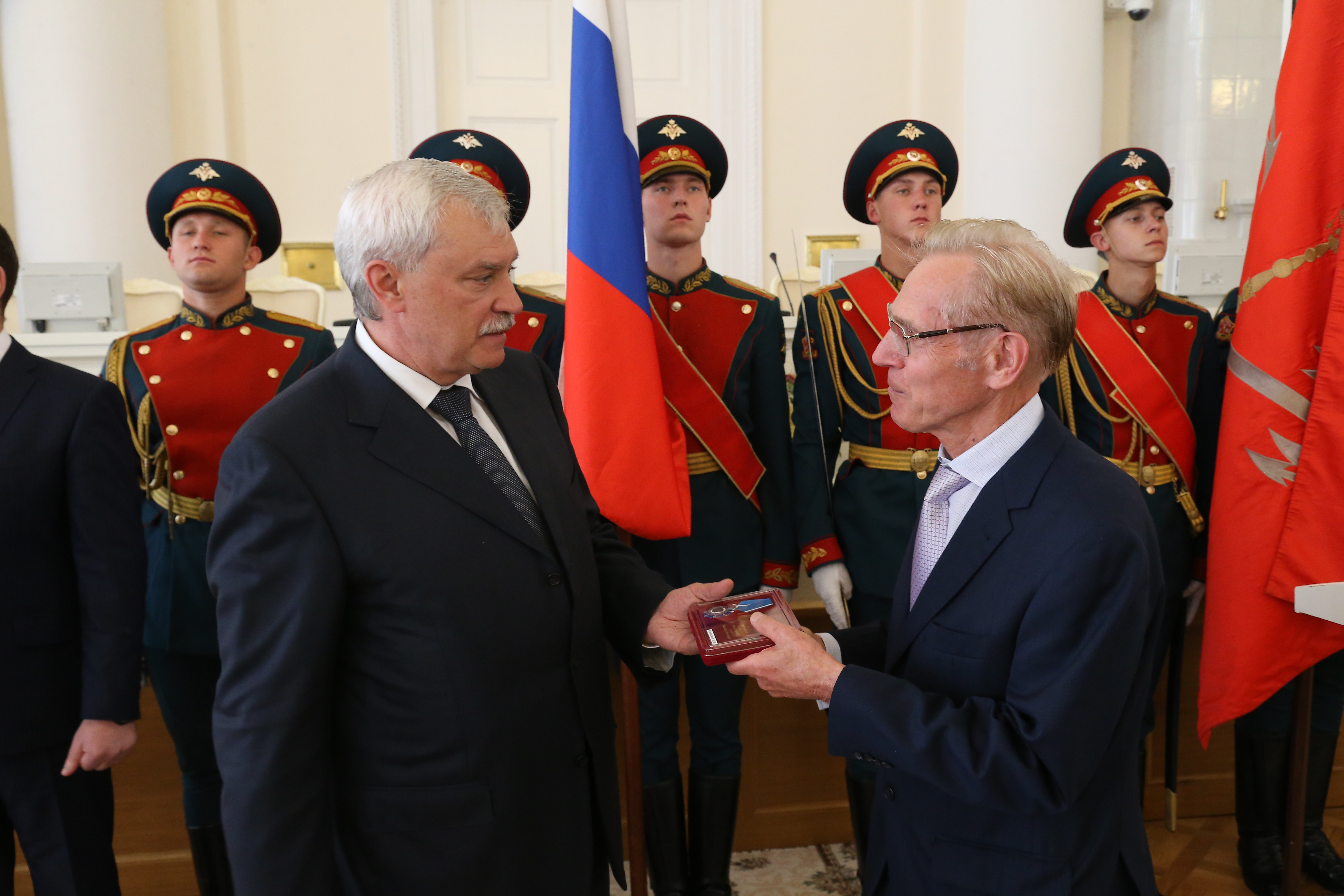 Presentation of the Governor of St. Petersburg G. Poltavchenko, the to Order of Honor Professor V. Semiglazov